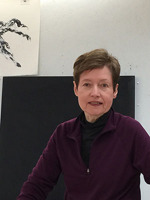 Promotional photograph of Jan Serr.